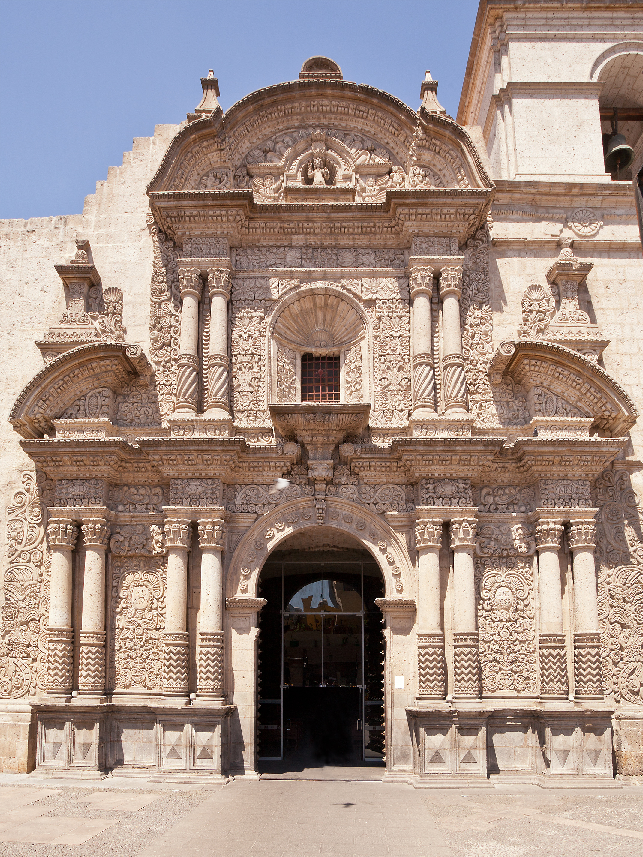 Church "Iglesia de la Compañía de Jesús", Arequipa